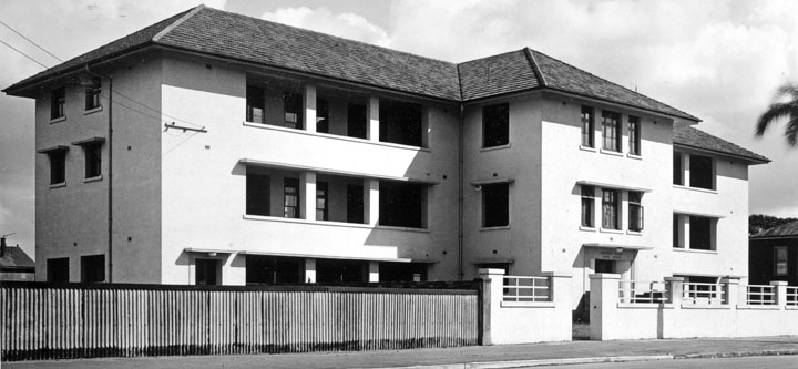 New School, Fortitude Valley. (95 Brookes Street, Fortitude Valley. Alternative names: former Fortitude Valley State School; former Fortitude Valley Boys School; former Fortitude Valley Girls and Infants School; State Emergency Services State Headquarters.)